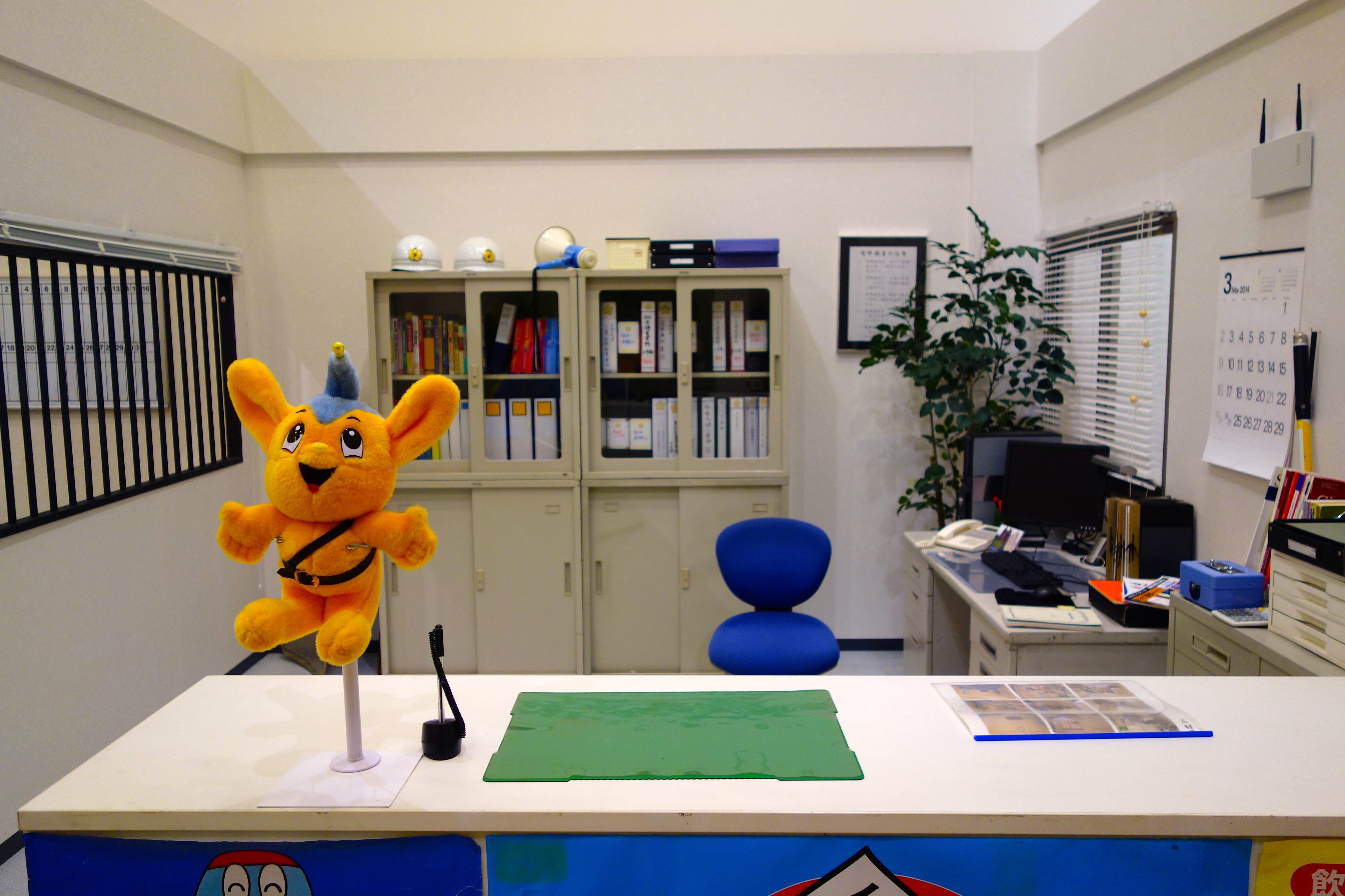 ミシェル・ゴンドリーの世界一周 / Around Michel Gondry's World 東京都現代美術館 / Museum of Contemporary Art Tokyo